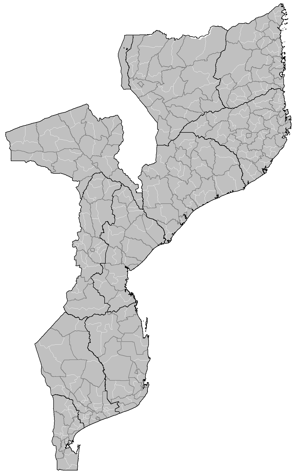 Map of the postos (third level administrative division) of Mozambique.